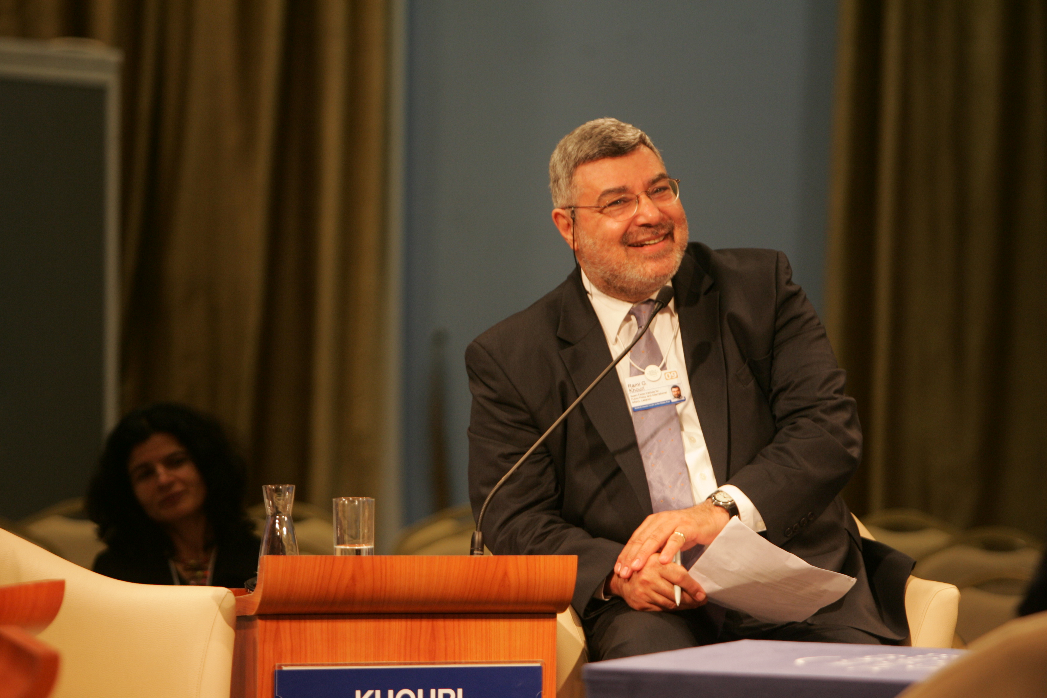 Rami G. Khouri, Director, Issam Fares Institute for Public Policy and International Affairs, Lebanon captured during the Global Redesign Series: The Middle East G20 Imperative at the World Economic Forum on the Middle East 2009.